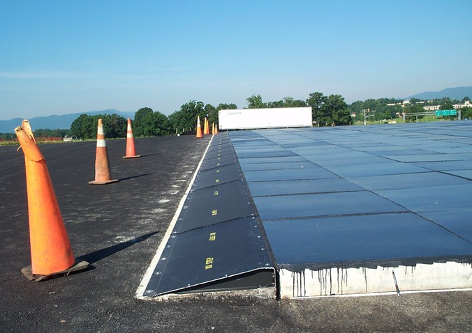 An Engineered Materials Arrestor System (EMAS) bed under construction. The slope part on the left is the blast shield. The EMAS blocks are on the right.